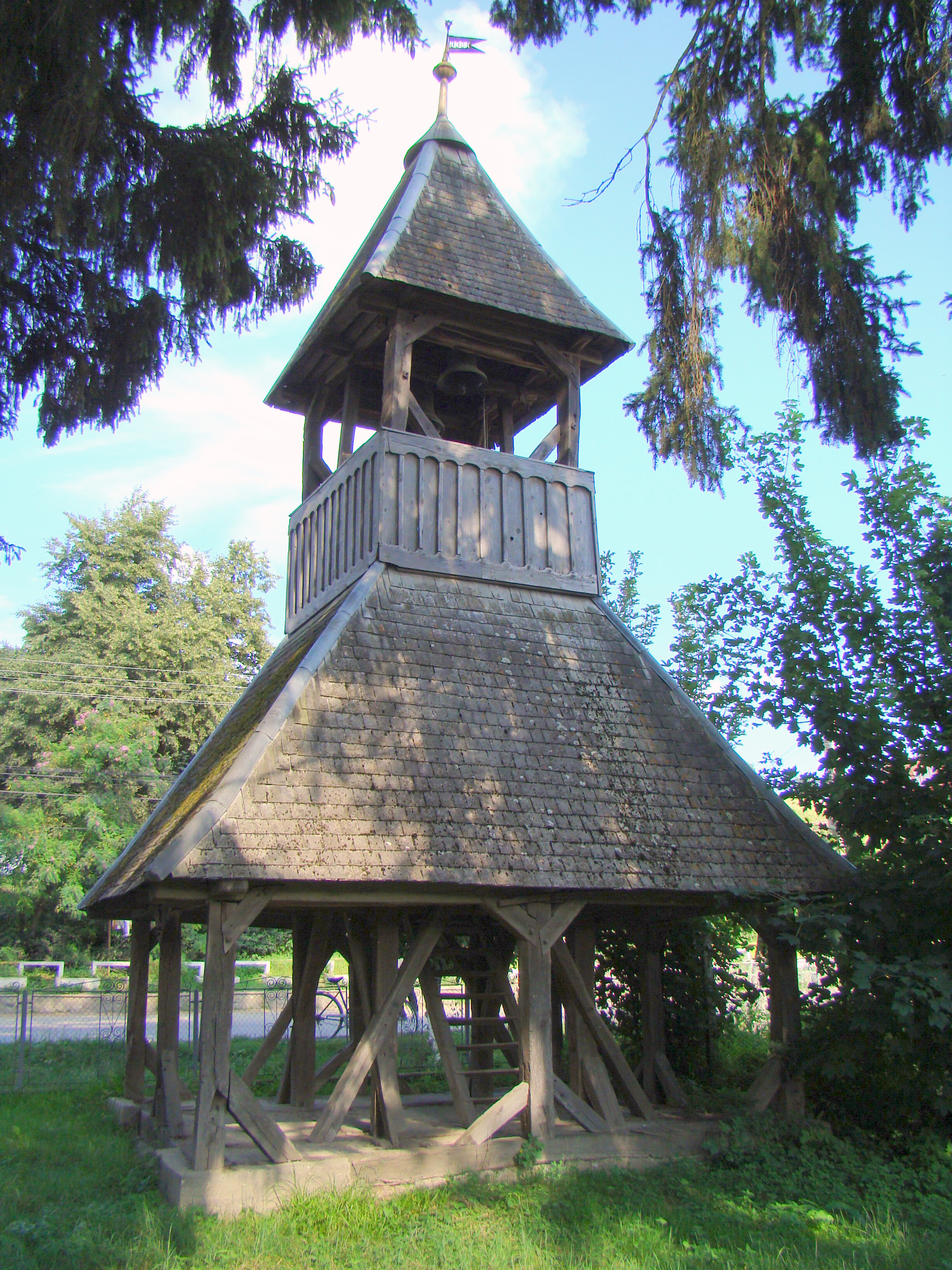 belfry of the Reformed church in Nușeni (Apanagyfalu), Bistrița-Năsăud County, RomaniaRomână: Biserica reformată din Nușeni